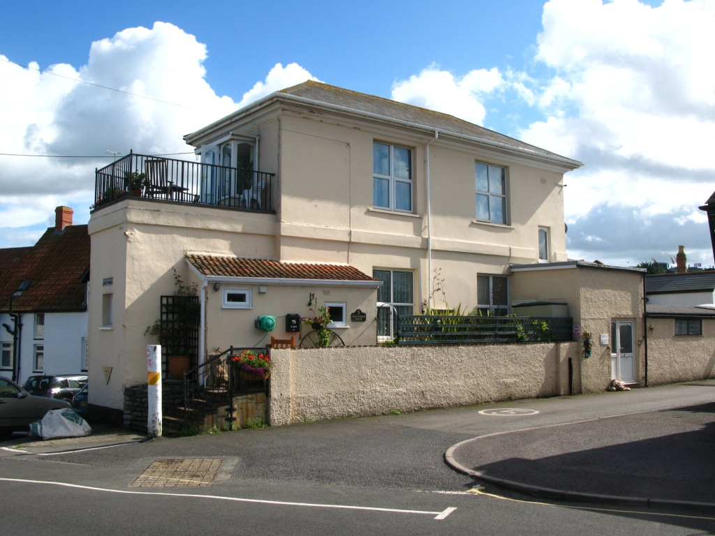 The former West Somerset Mineral Railway station in Watchet. Photographed in 2011 when it was in use as a house.